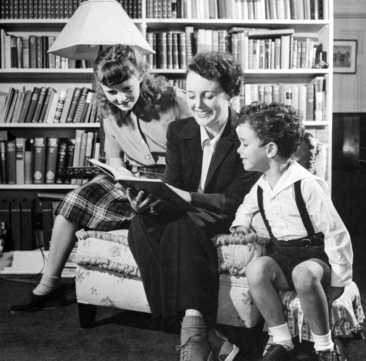 Photograph of Mary Astor with her daughter Marilyn Thorpe, and her son Anthony del Campo